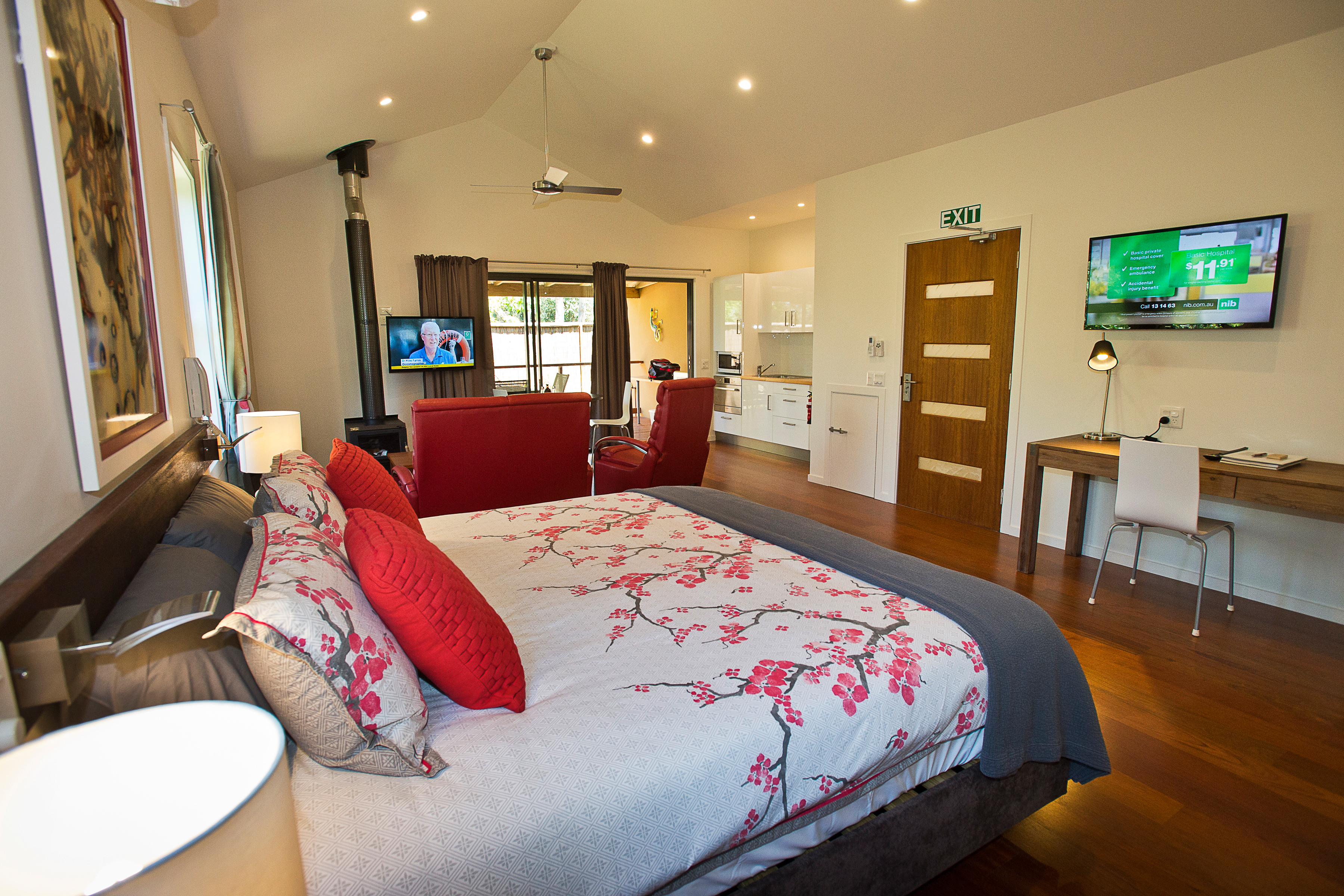 Premium Cottage - bedroom with king size bed